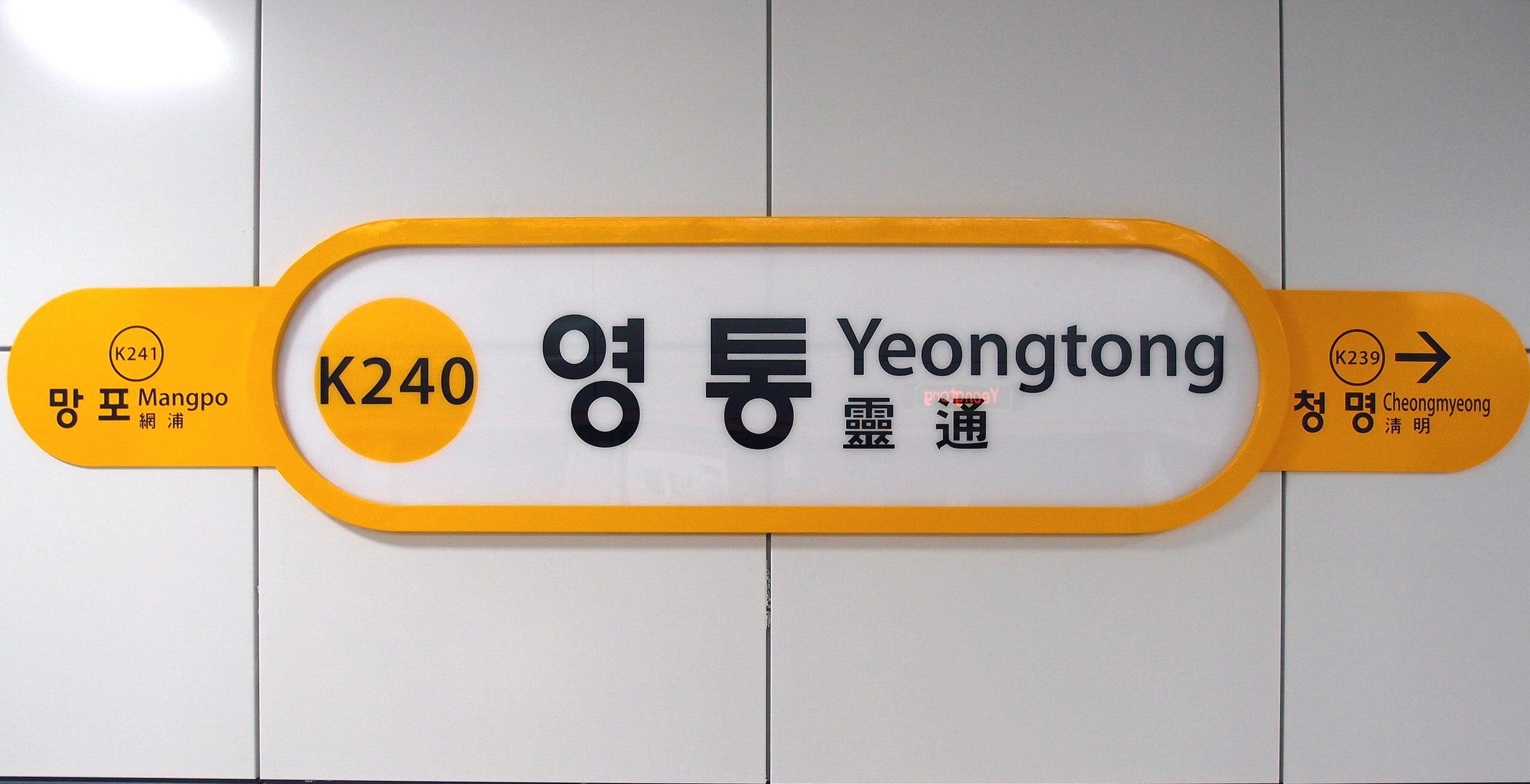 K240 yeongtong station